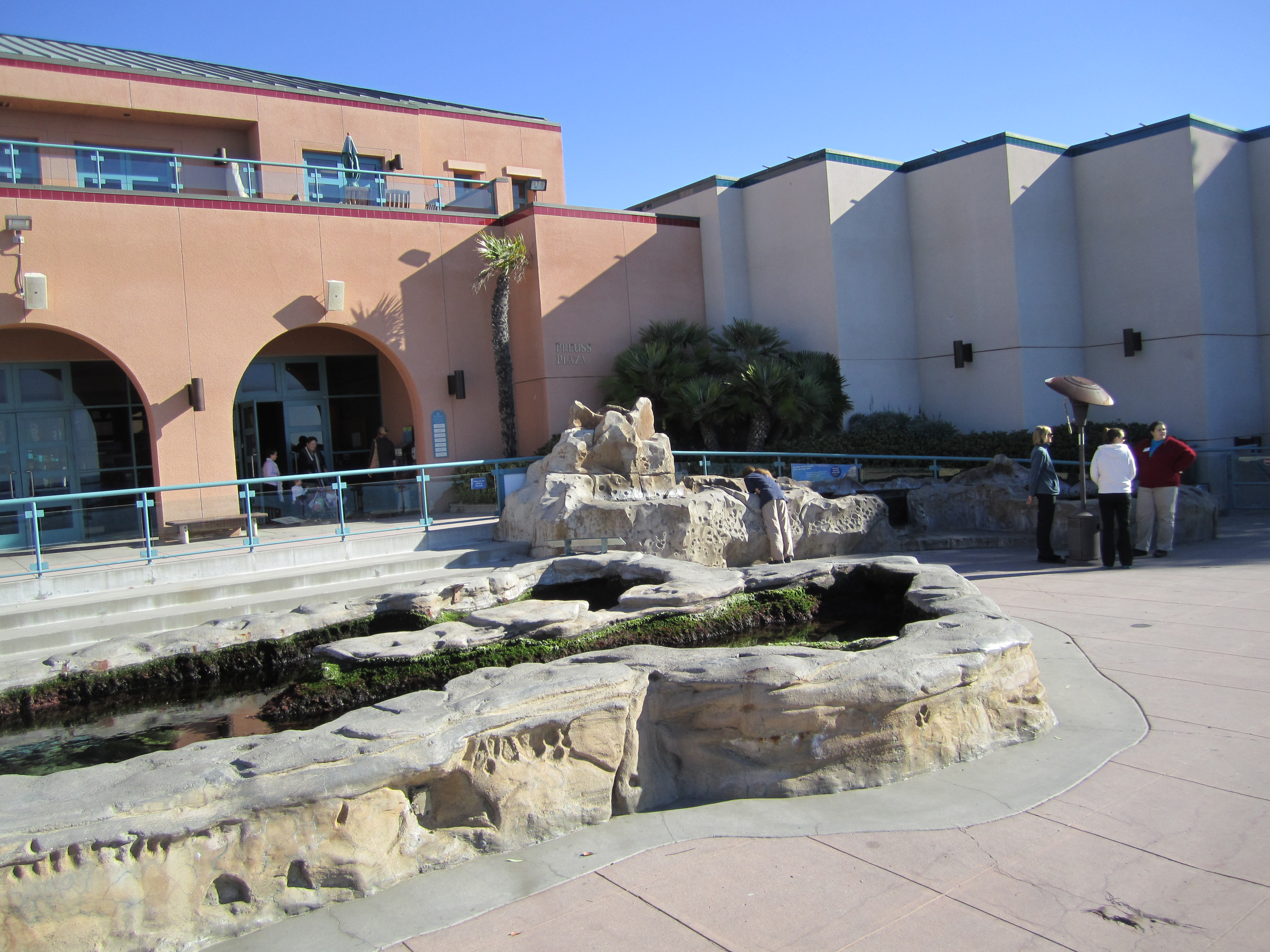 The Tidepool Plaza exhibit